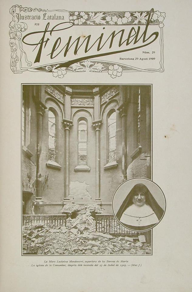 Magazine cover